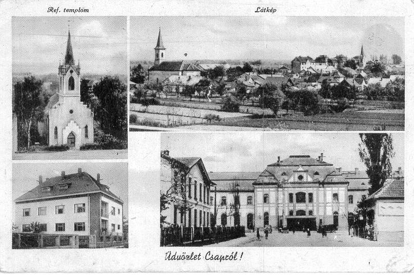 Chop 1930-40